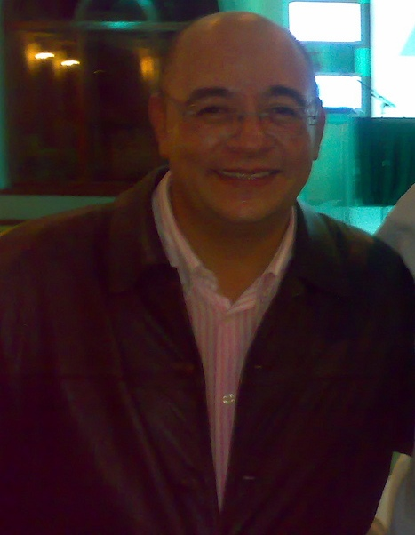 Victor Trujillo